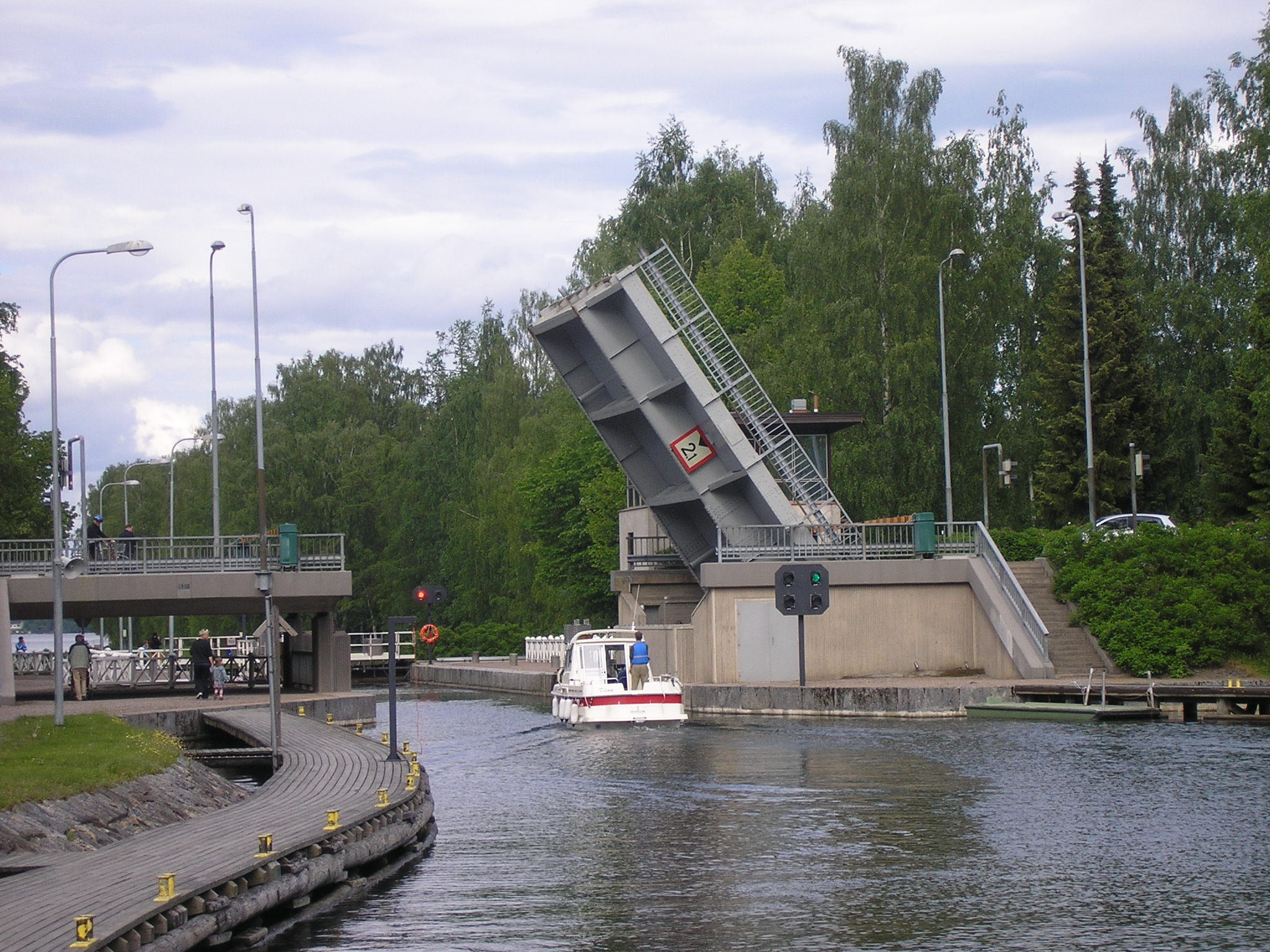 Vääksy Canal in Asikkala, Finland